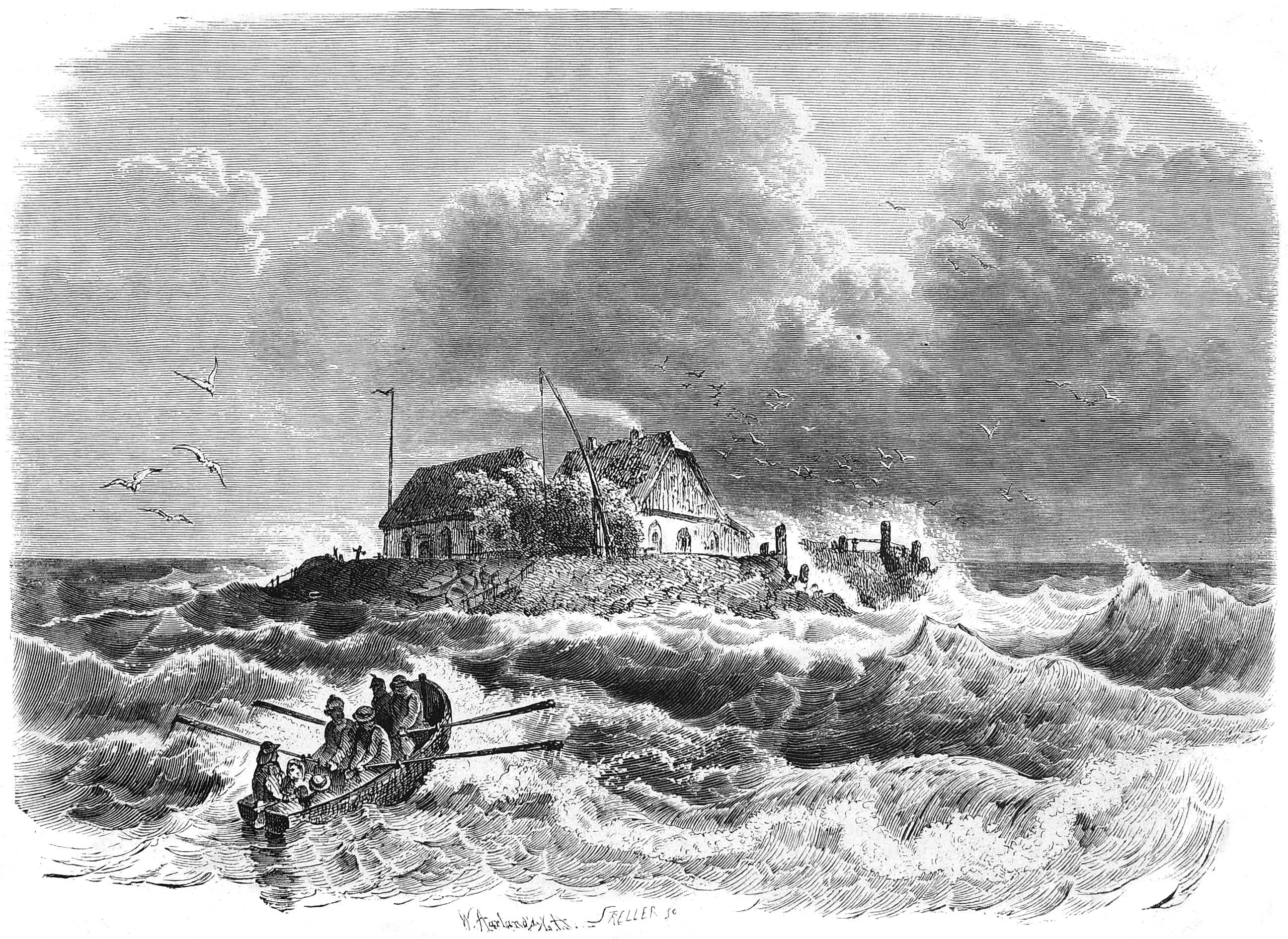 no caption